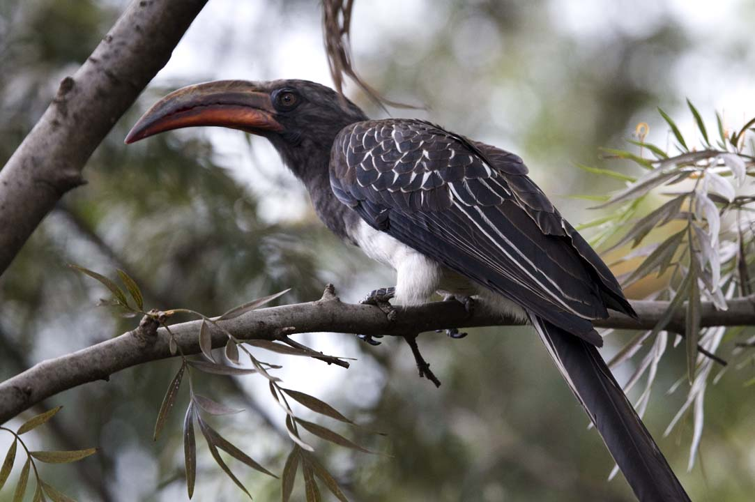 An adult male Hemprich's Hornbill in Ethiopia.